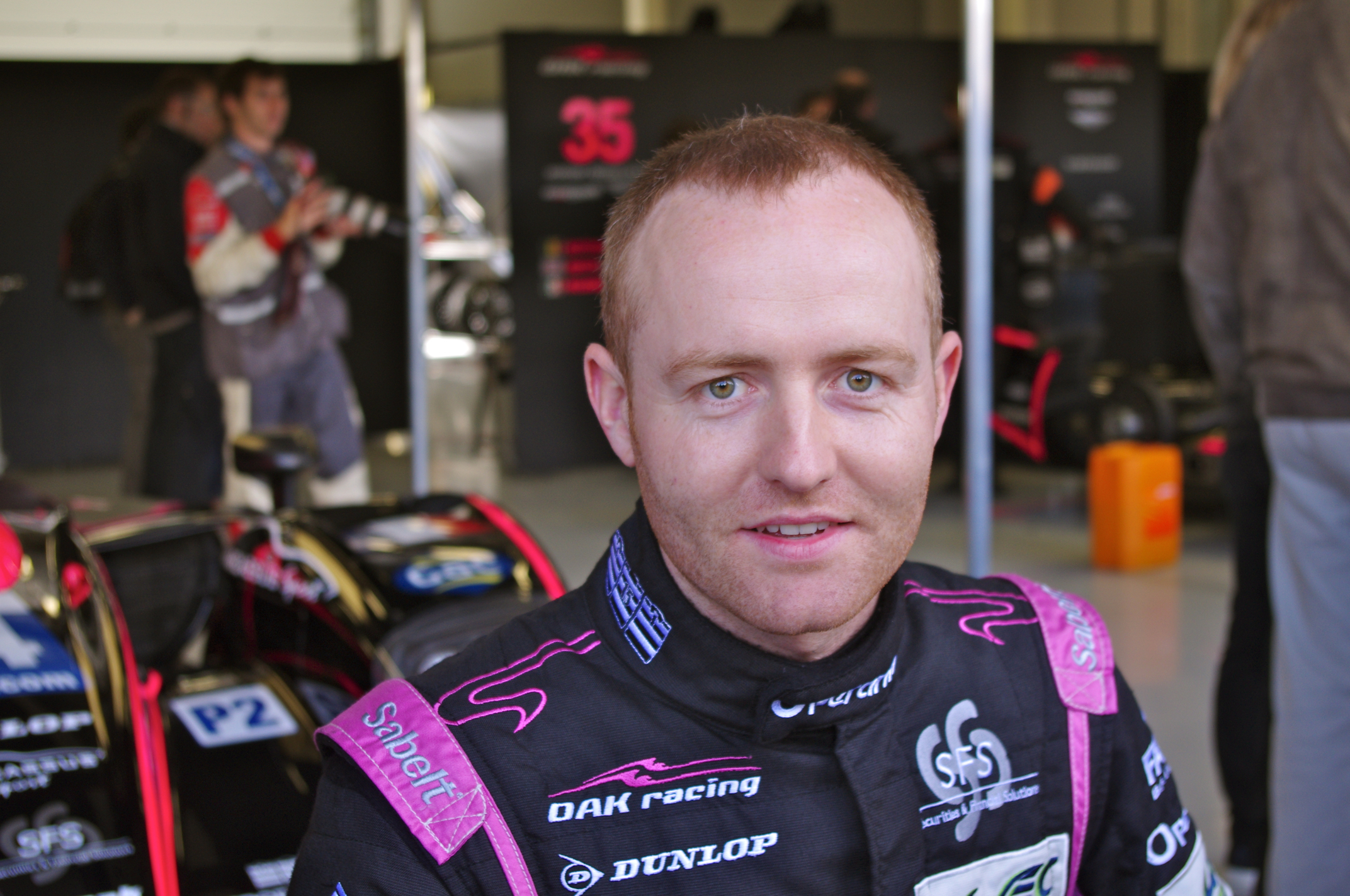 Silverstone 6 Hours 2013 FIA World Endurance Championship (WEC)